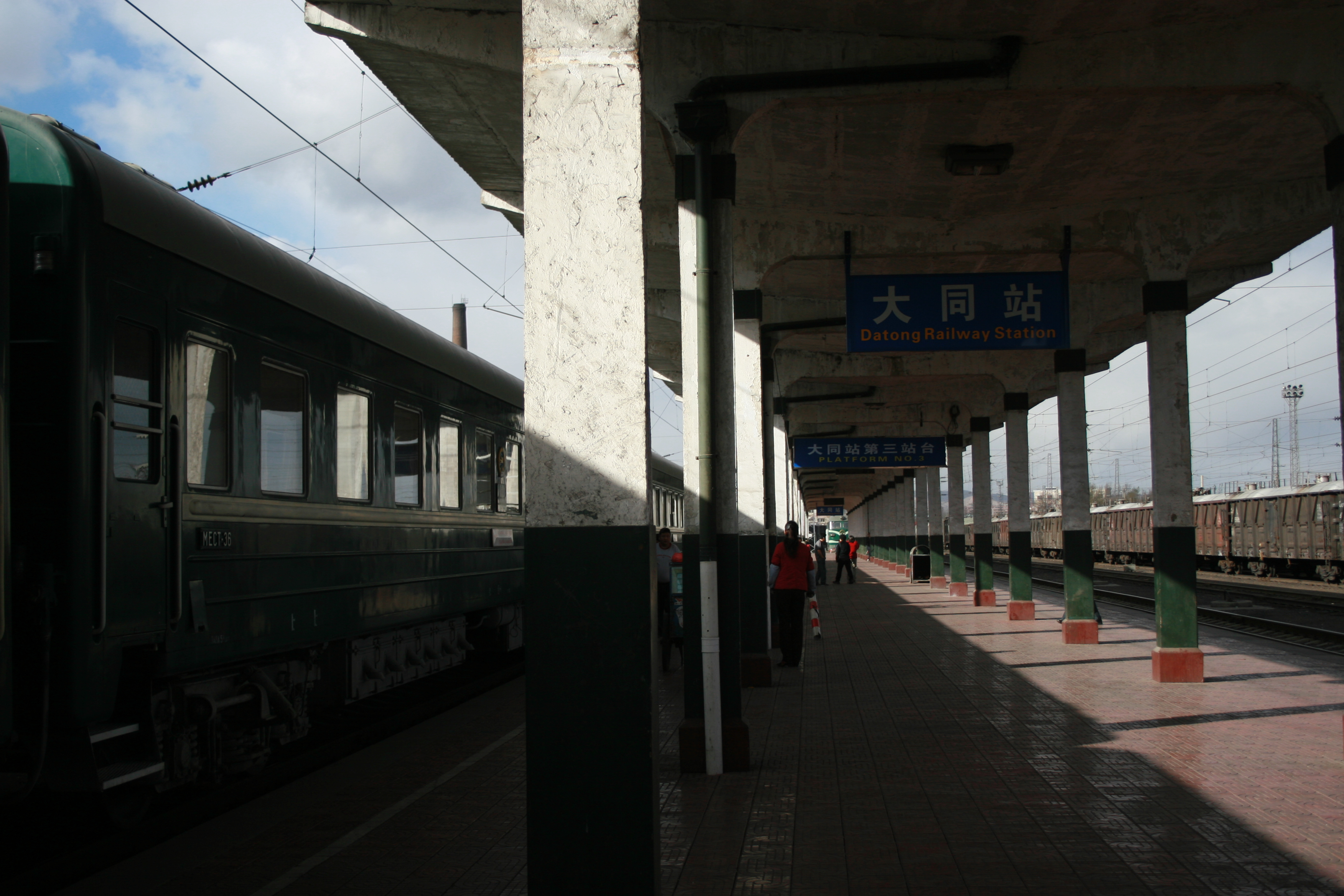 A stop on the Trans-Mongolian train, at the northern Chinese city of Datong.